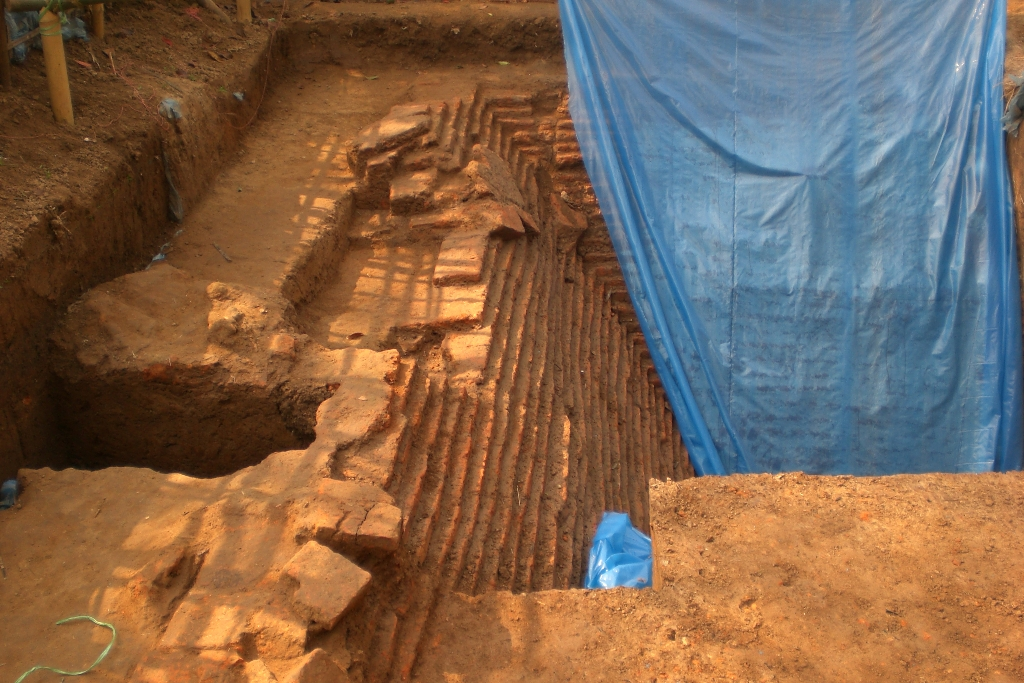 An interesting ancient structure with walls leaning outward. Photograph taken by Shehab.